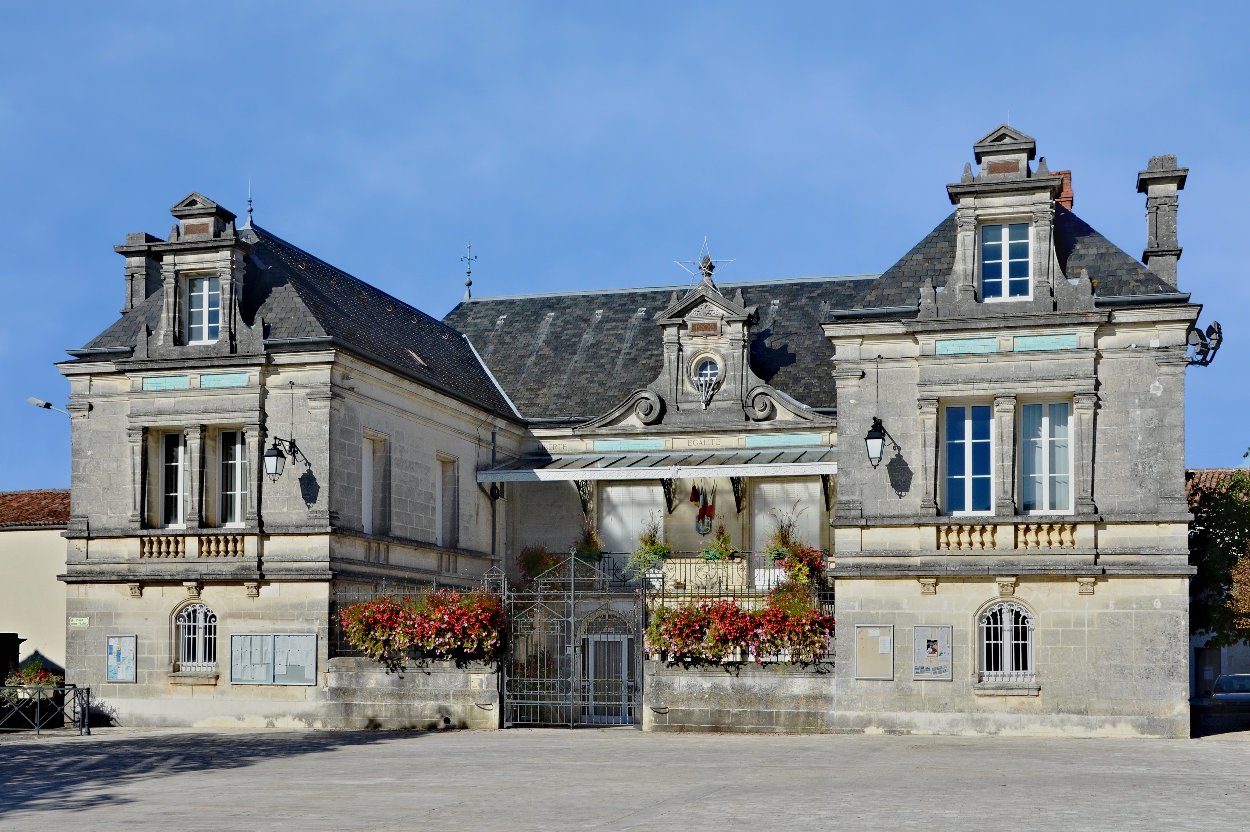 Facade of the town hall of Segonzac, Charente, France. .